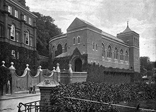 Speech Room of English Harrow School.